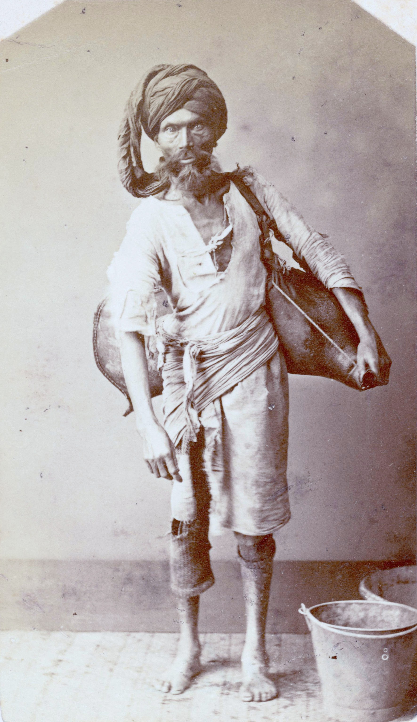 A water carrier or “bhisti” in India, circa 1870. (Photo by Hulton Archive/Getty Images)